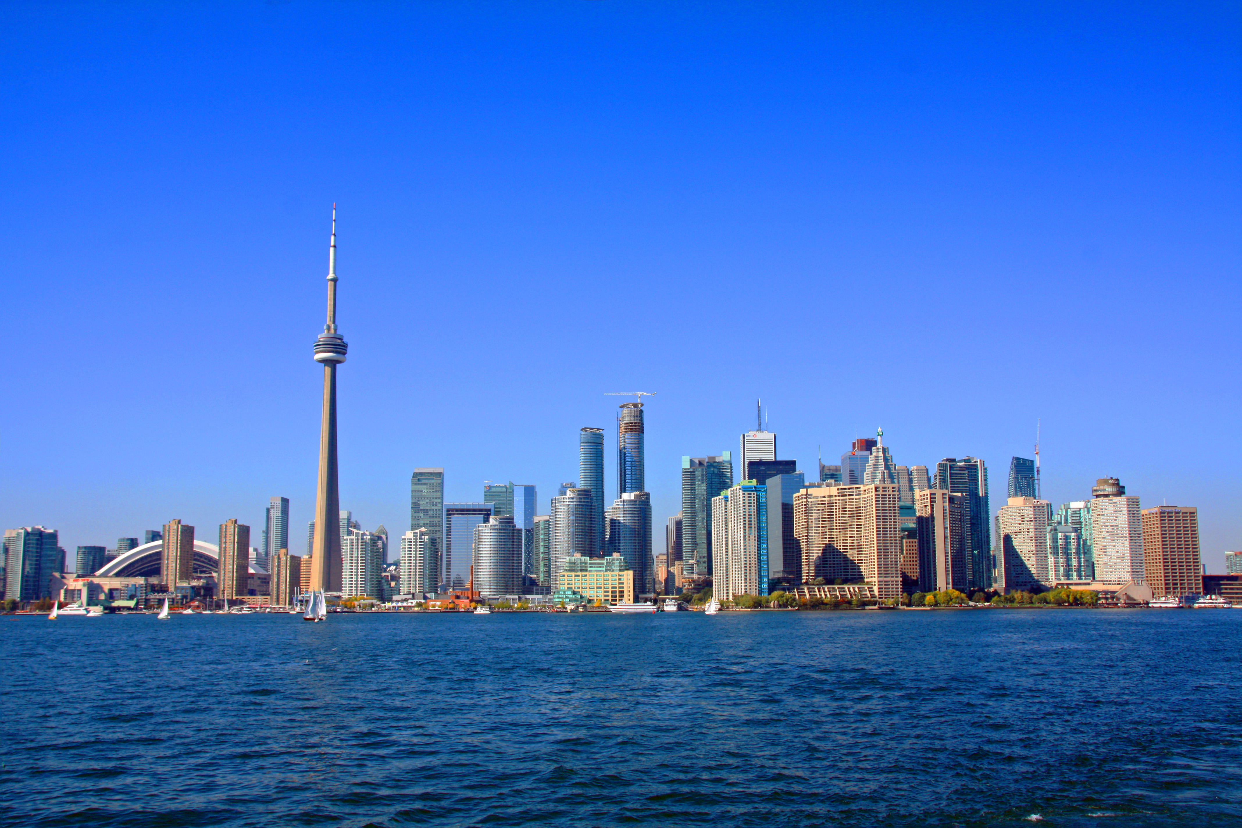 A view of the Toronto Skyline, September 2014